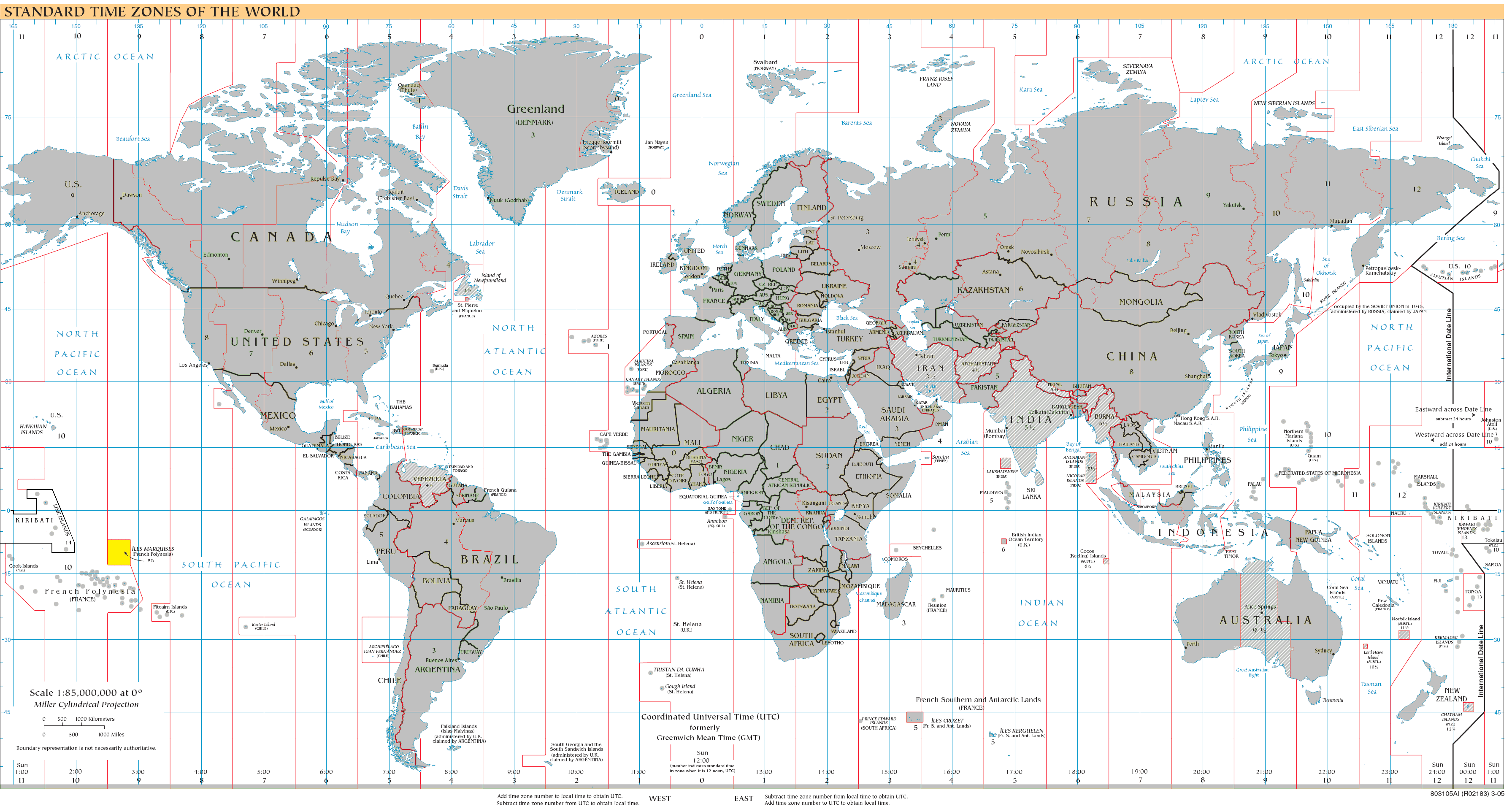 World map of time zones as of June 2008 Highlingting UTC-9:30. Yellow UTC-9:30 all year round